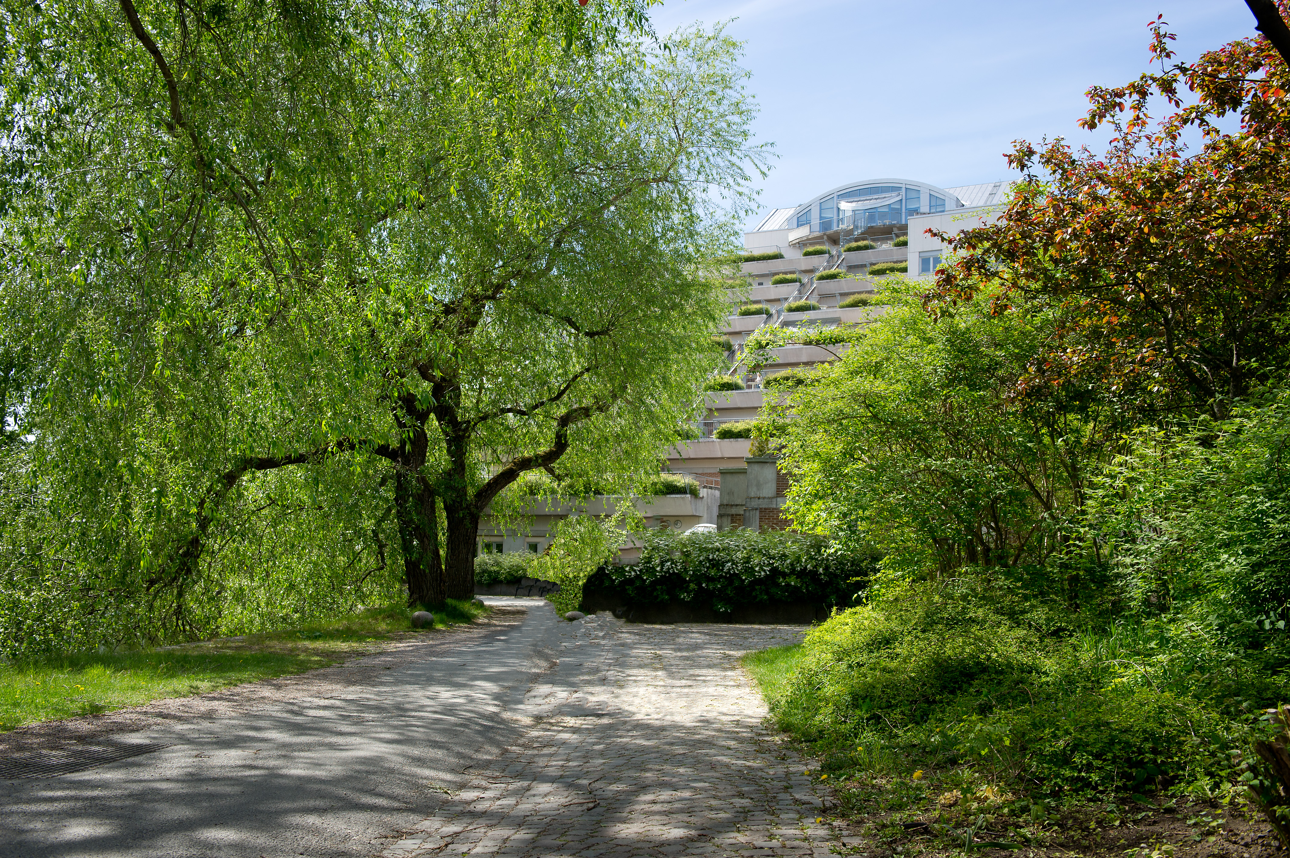 Örebro University Hospital, M-House